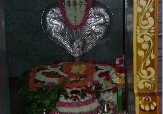 Puthumandapam at Melmaruvathur